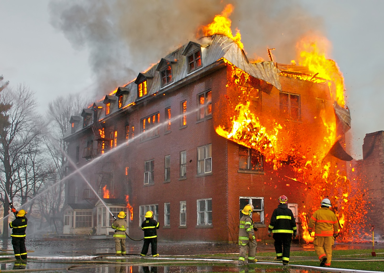 A photograph of a major fire. This photograph was taken during a major fire involving an abandoned convent in Massueville, Quebec, Canada. The fire was so violent that firefighters had to focus their efforts on saving the adjacent church instead of attacking the involved building. This photograph is a good example of what can be done with specialized fire photography, as the public does not have access to this extraordinary point of view and it was necessary to have fire photographer credentials to take pictures from there.